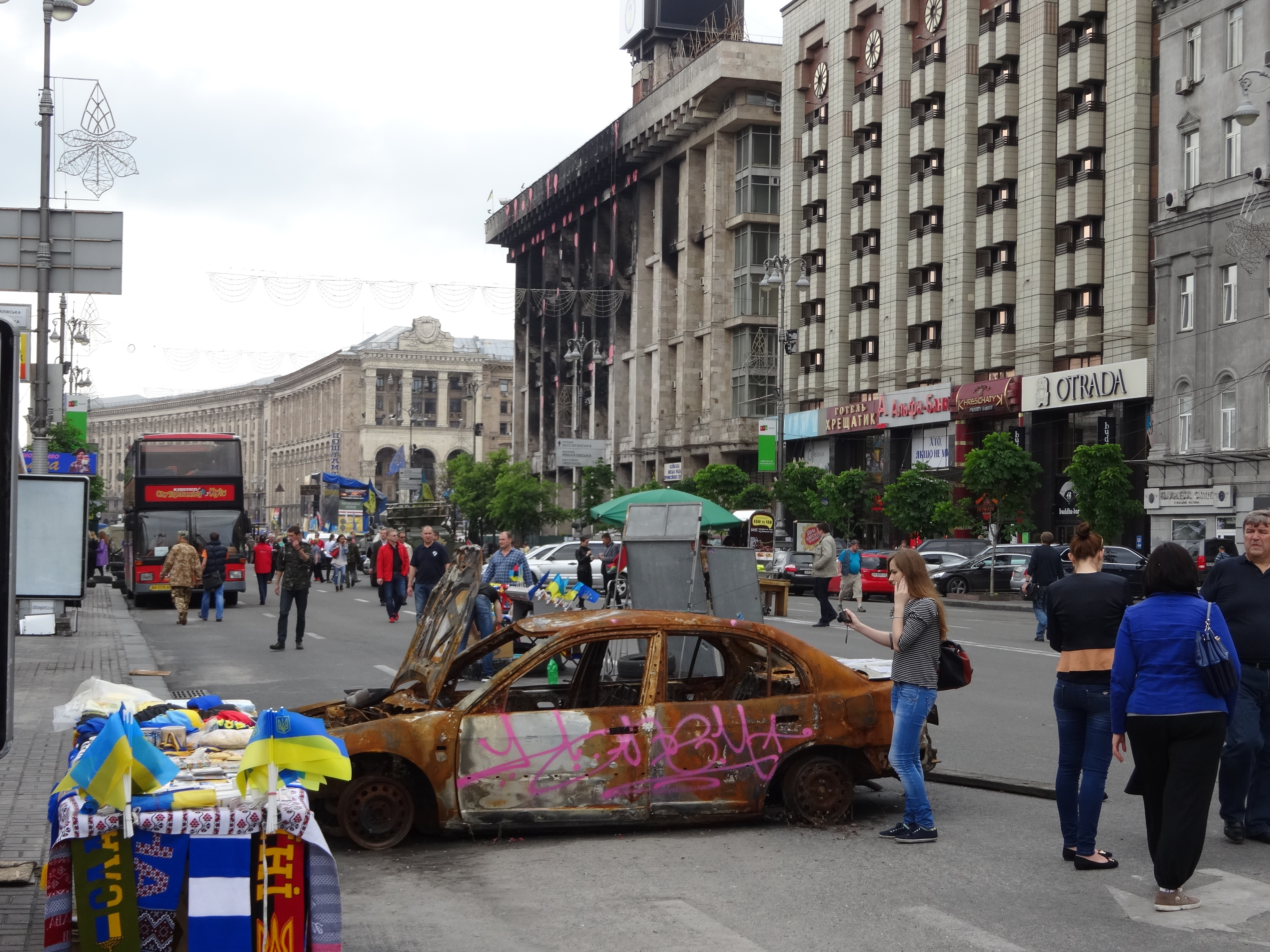 Remains of "Euromaidan"